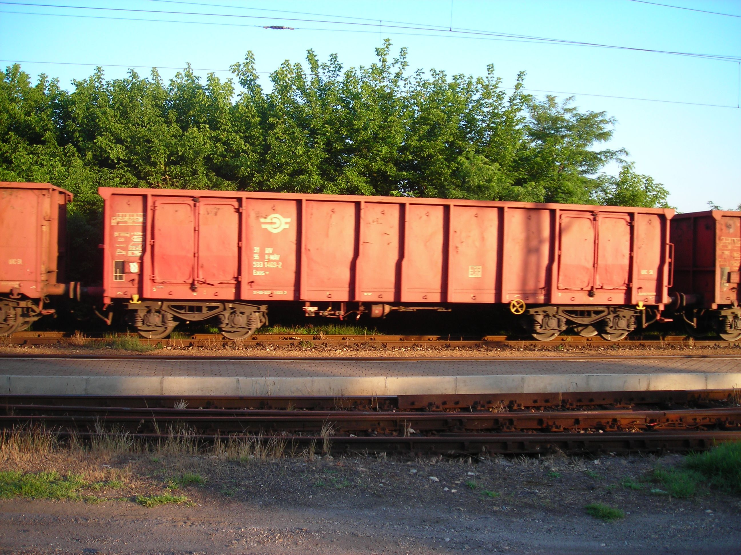 Class Eas open top railcar of the MÁV Zrt near Kecskemét, Katonatelep railway station